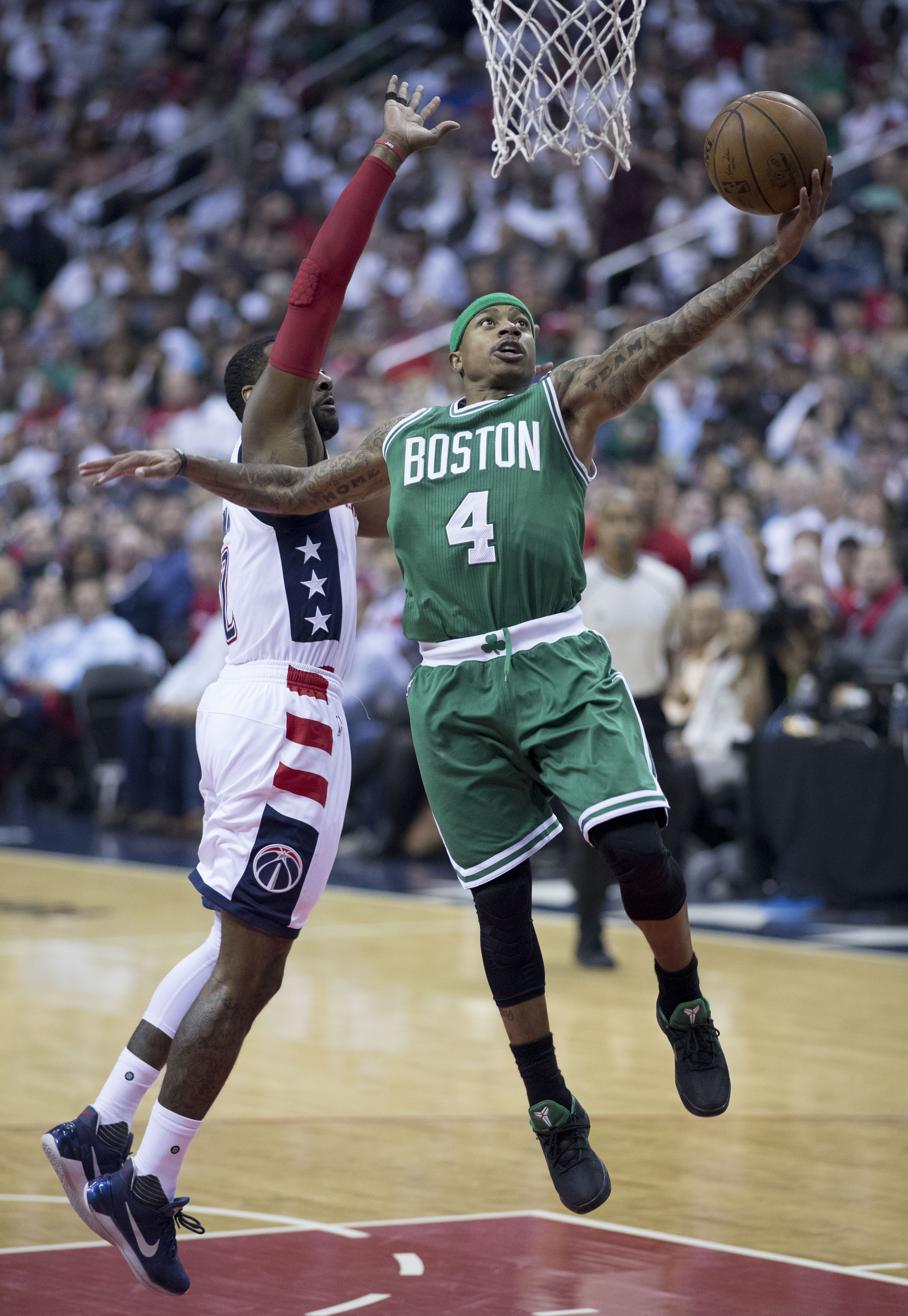 Celtics at Wizards Playoffs 5/7/17